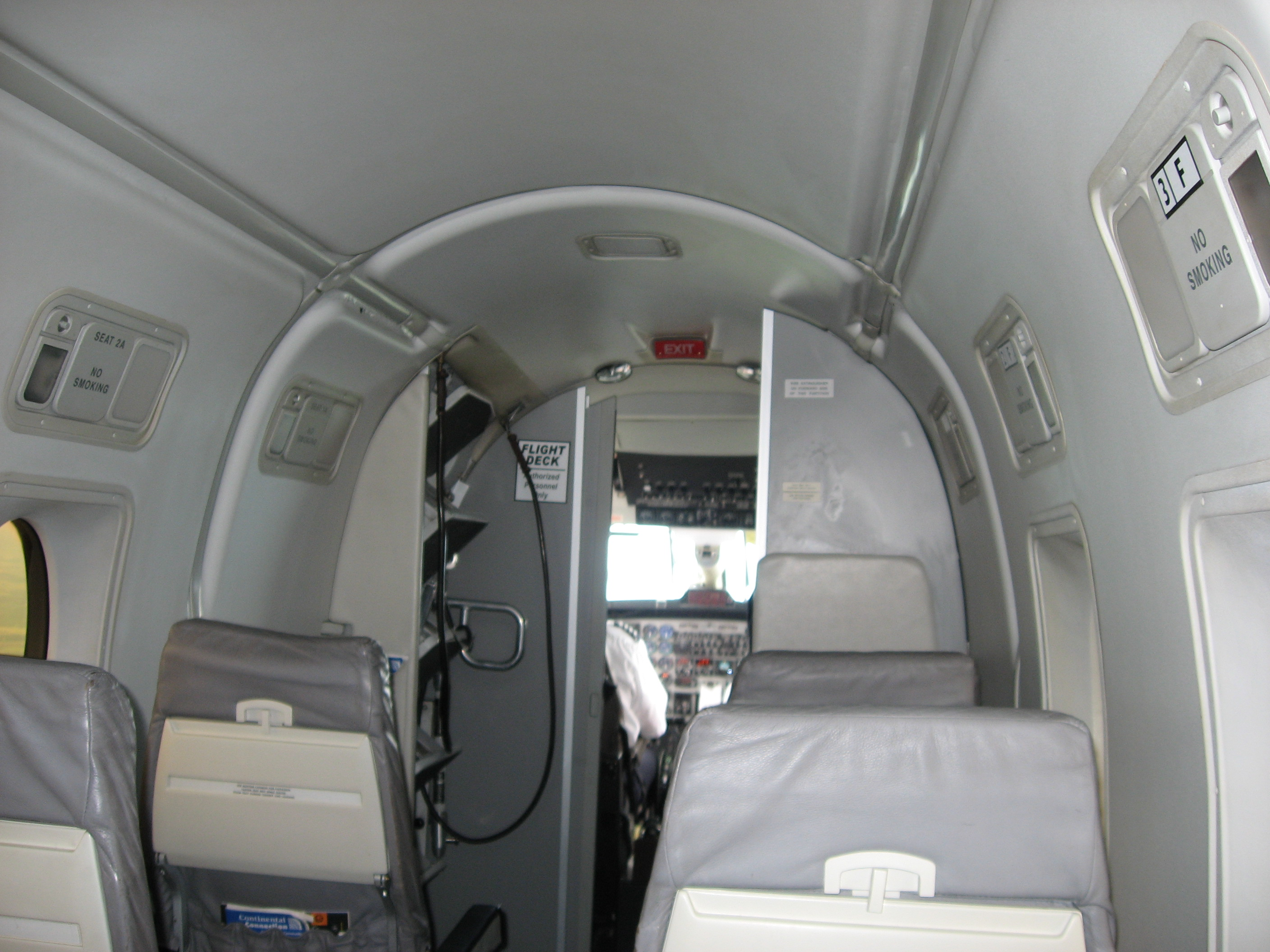 Cabin of a Beechcraft 1900 airliner, N840CA, operated by Commutair for Continental Connection. Taken in-flight over upstate New York, United States.